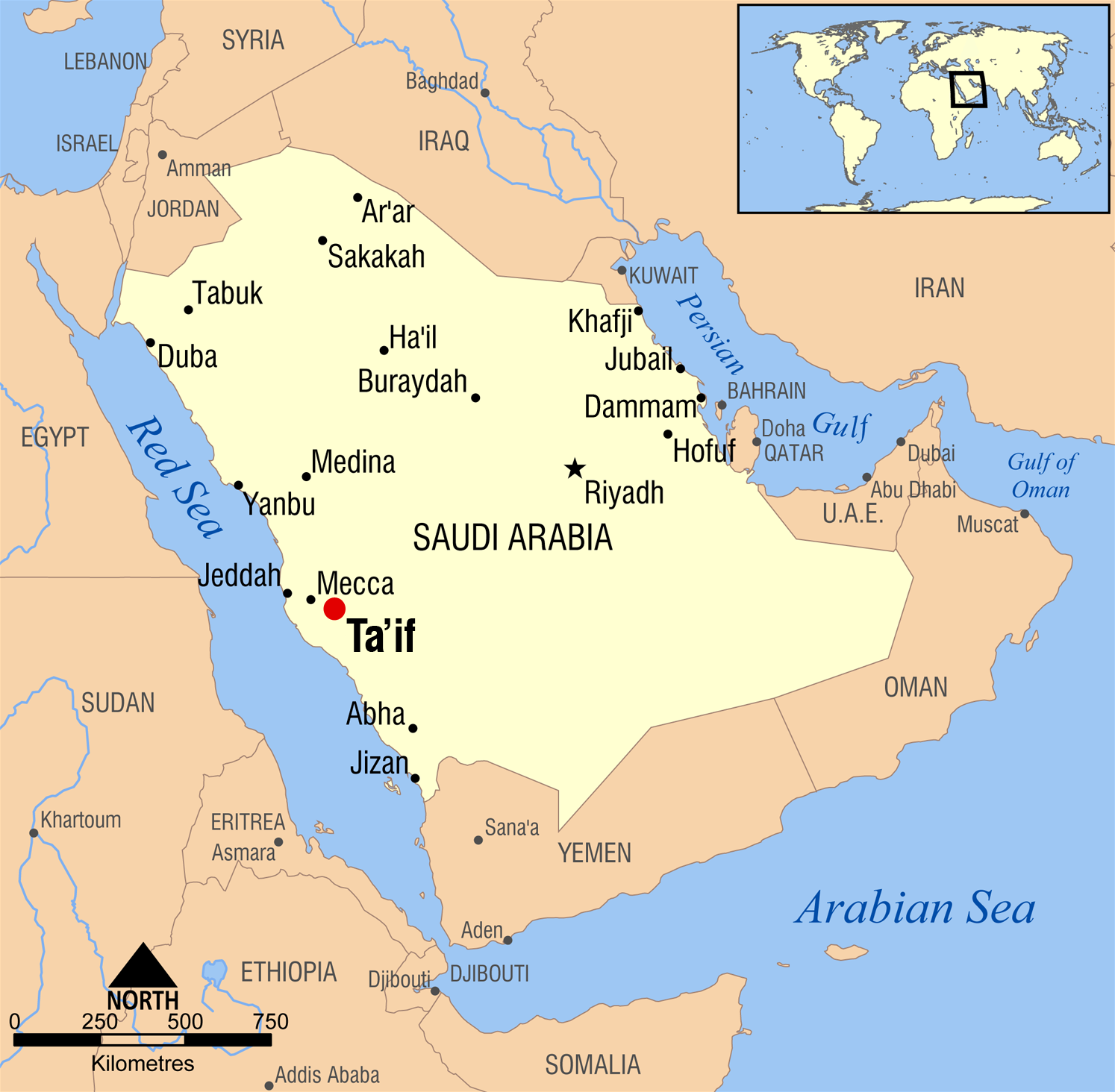 Locator map of Ta'if, Saudi Arabia. Created by NormanEinstein, April 20, 2007.